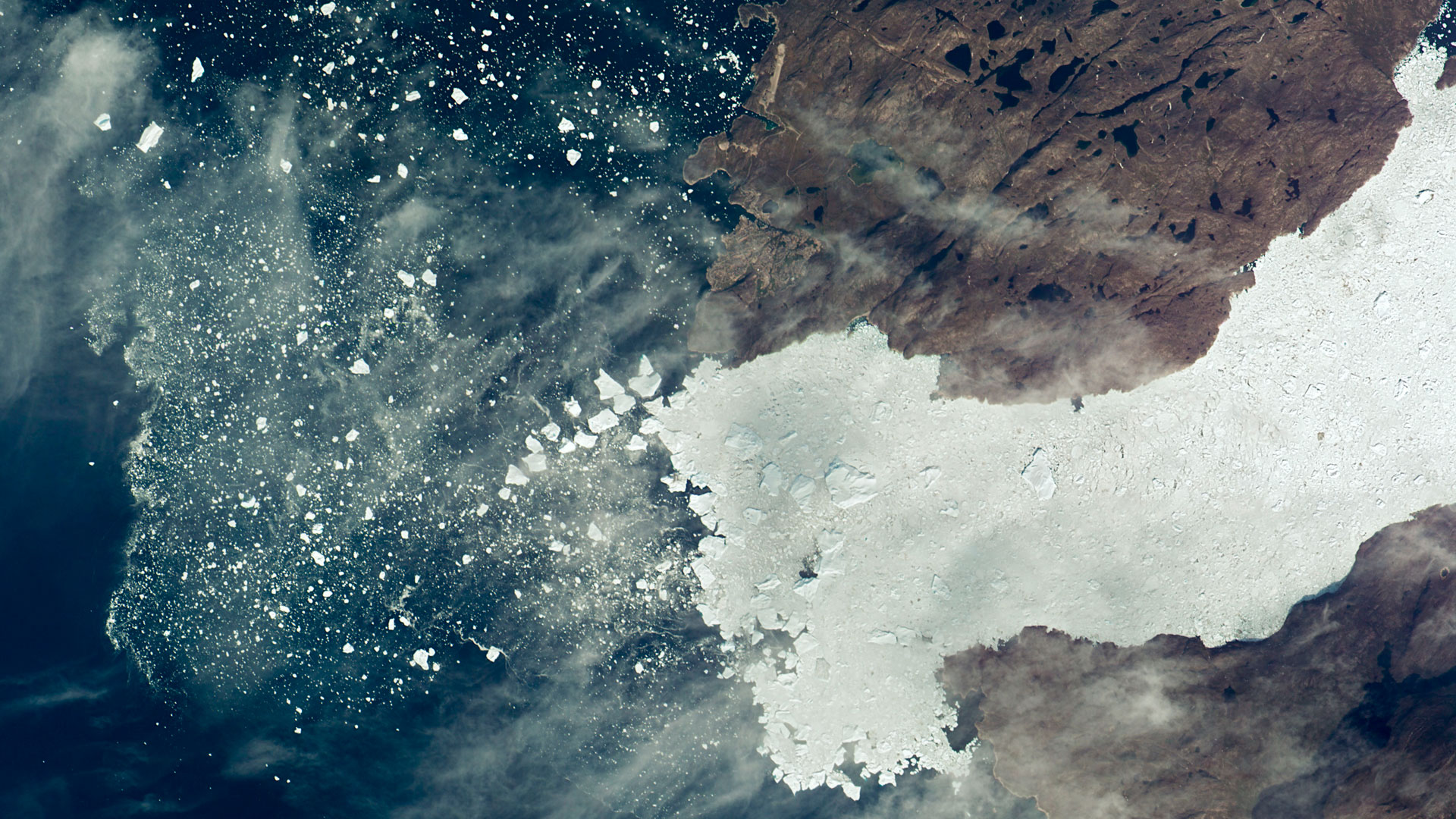 Around the town of Ilulissat, Greenland, as viewed from Hodoyoshi-1 satellite. Ilulissat Icefjord, a UNESCO World Heritage Site, is near the town.